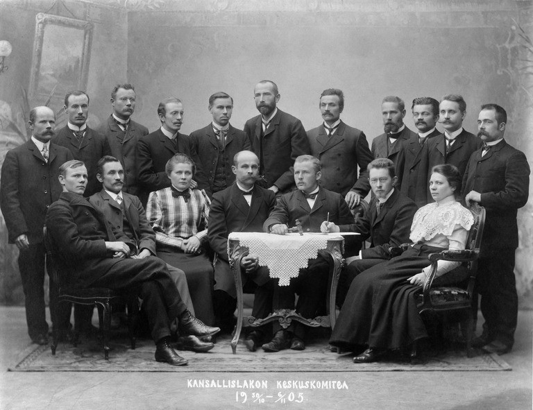 General strike 1905 Helsinki comittee. Back from left: Matti Haikarainen, Valfrid Perttilä, Emil Perttilä, K.G.K. Nyman, Emil Hytönen (Elo), K. F. Hagman, Salomon Hellsten, Juho Grönholm (Jalo), Juho Heitto, G.W. Johansson, Matti Hälleberg (Paasivuori). Front from left: August Rissanen, Anton Caselius, Mimmi Kanervo, Johan Kock, Paavo Leppänen, Lauri Lindstedt (Loimaranta), Ida Ahlstedt (Aalle-Teljo).